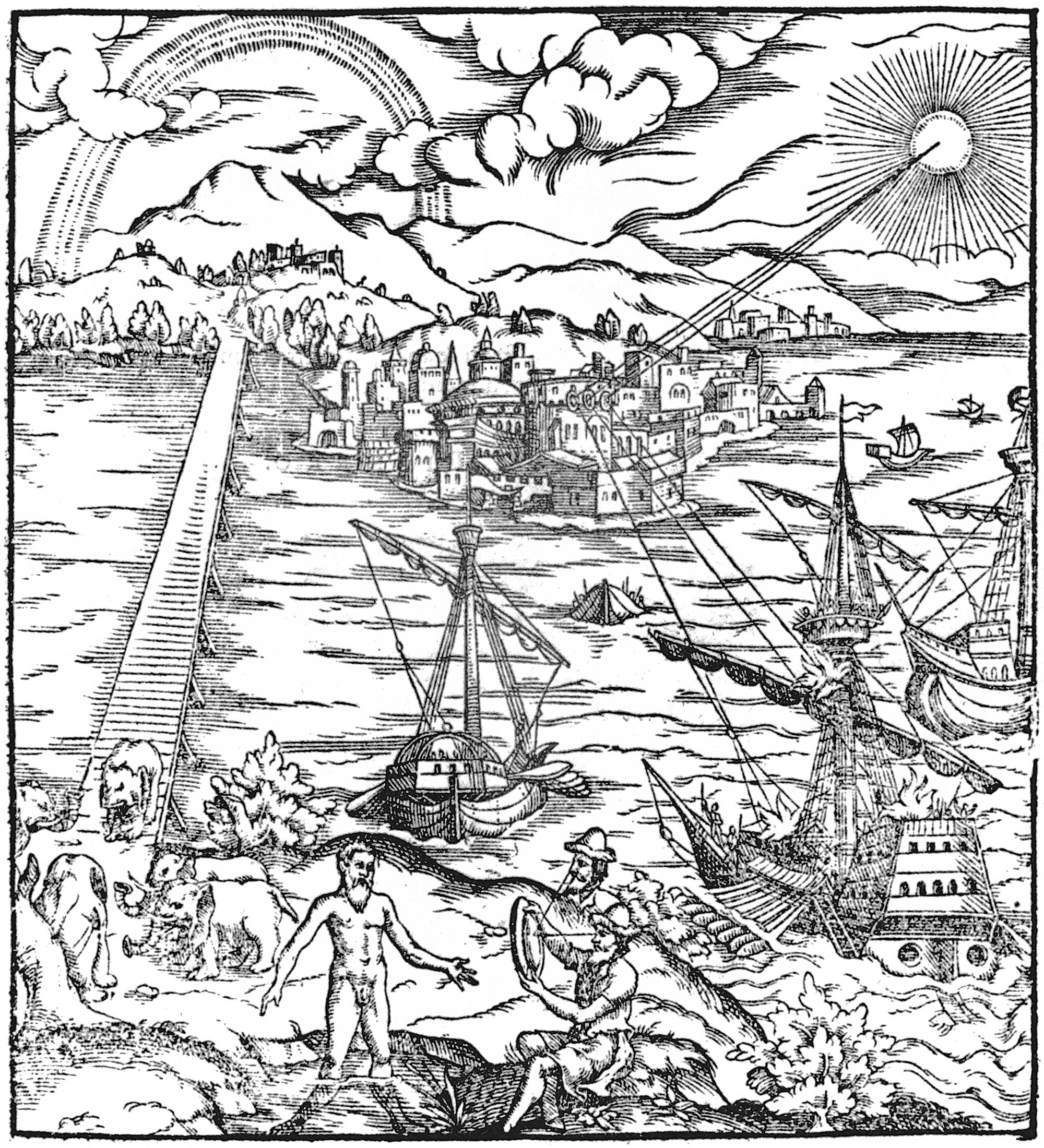 Engraving from the title page of Opticae Thesaurus, a latin edition of Ibn al-Haytham's Book of Optics. Among other things it shows how Archimedes allegedly set Roman ships on fire with parabolic mirrors during the Siege of Syracuse.